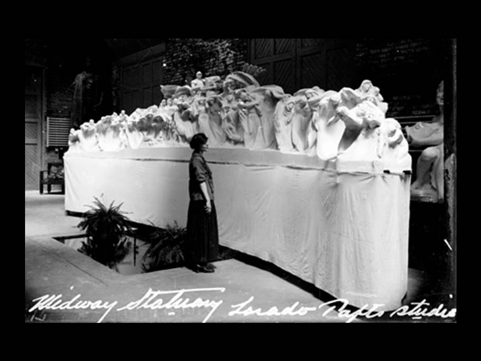 Fountain of Time in Lorado Taft Midway Studio in the Woodlawn community area of .